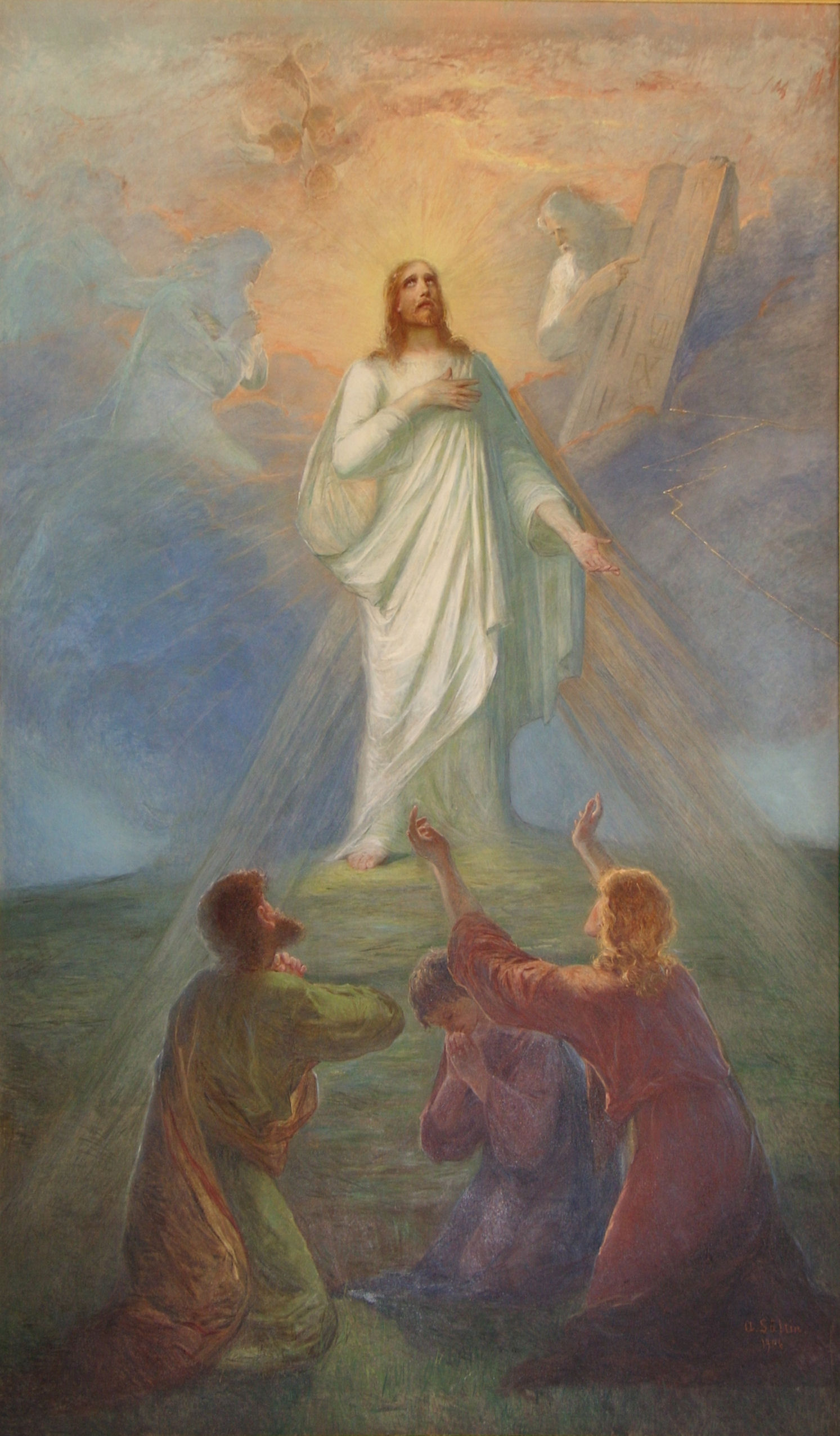 Altar painting of the church of Jalasjarvi, by Alexandra Frosterus-Såltin (1837-1916) Photograph: Samsumg S850, perspective correction Corel Paint Shop Pro Photo XI, Olli-Jukka Paloneva, , N 62°29.446', E 022°45.589'